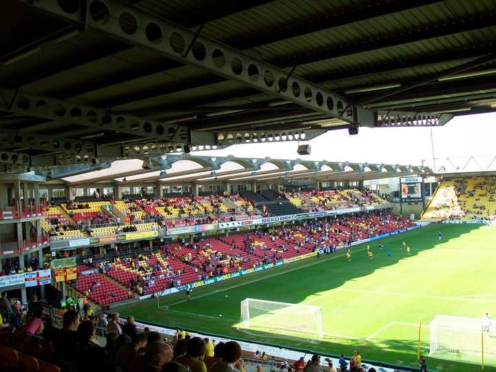 The Rous Stand at Vicarage Road, pictured in early 2012. The photo was taken from the Rookery End. The incomplete South West corner is partially visible in the far left.